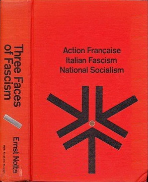 Book cover of Ernst NolteErnst Nolte : Three Faces of Fascism (Der Faschismus in seiner Epoche). First American Edition edition, Henry Holt & Company, Inc., 1966.